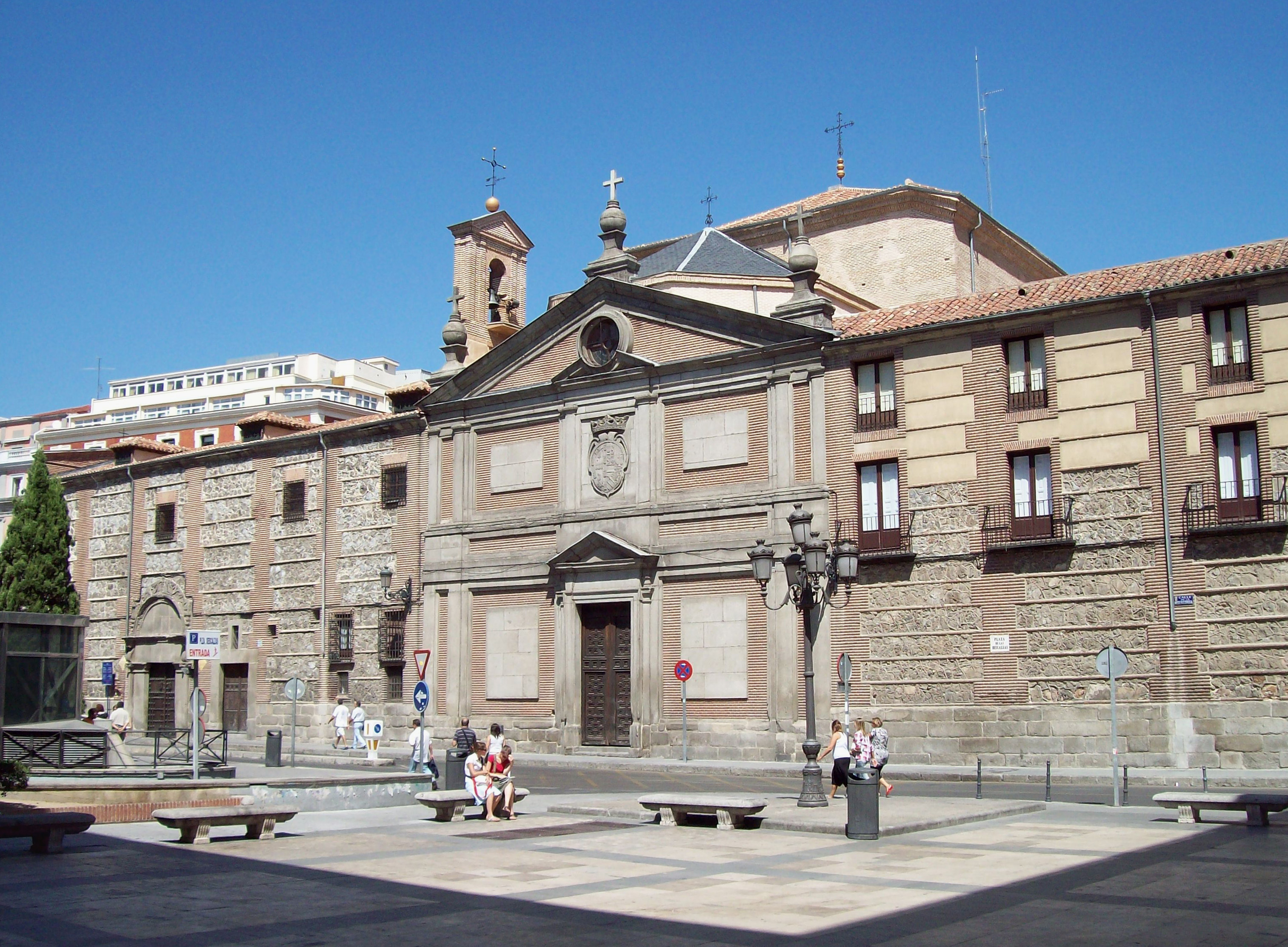 Main façade of Monasterio de las Descalzas Reales, a convent at Plaza de las Descalzas (square) in Madrid (Spain).